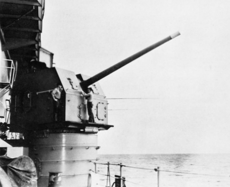 A 127 mm/54 Mark 16 gun aboard the U.S. Navy aircraft carrier USS Midway (CVA-41).